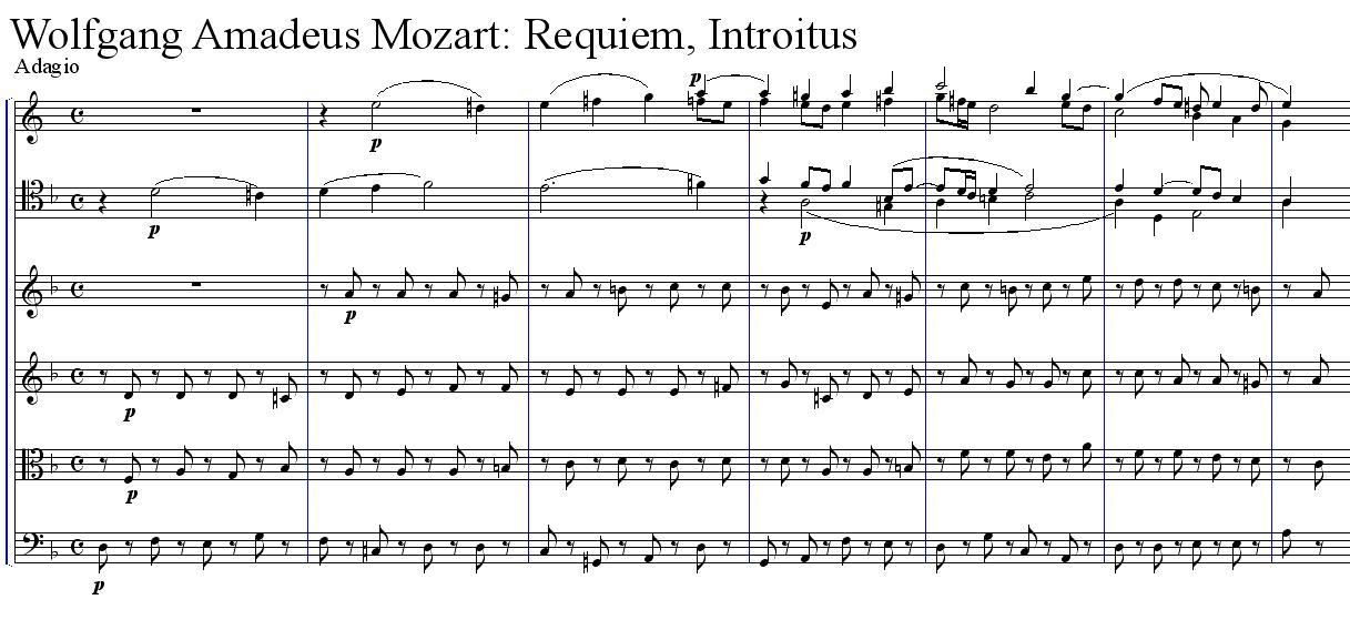 Mozart - Requiem, introitus (score)